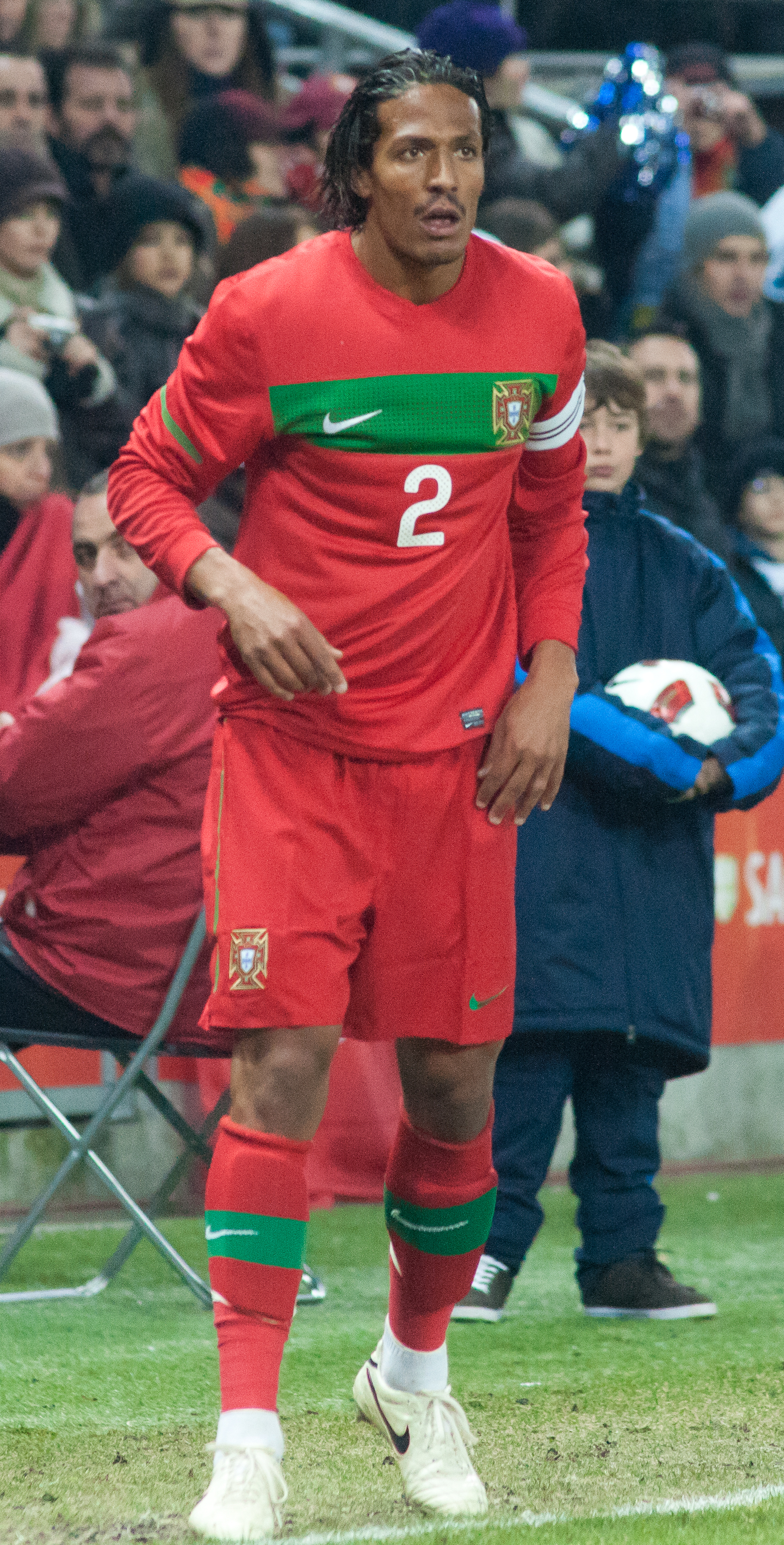 The making of this document was supported by Wikimedia CH. (Submit your project!) For all the files concerned, please see the category Supported by Wikimedia CH. Portugal vs. Argentina, 9th February 2011